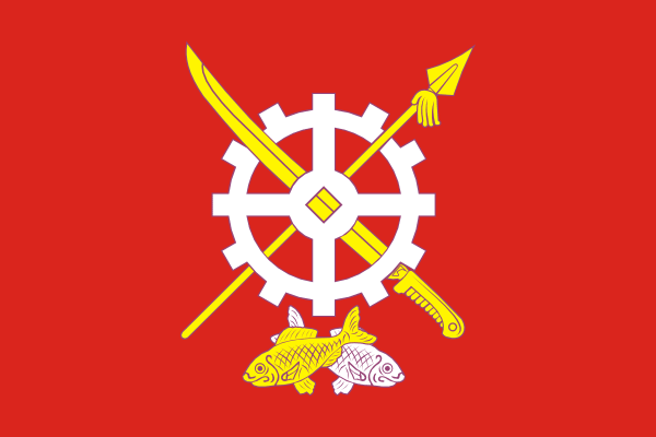 Aksai (Rostov oblast), flag